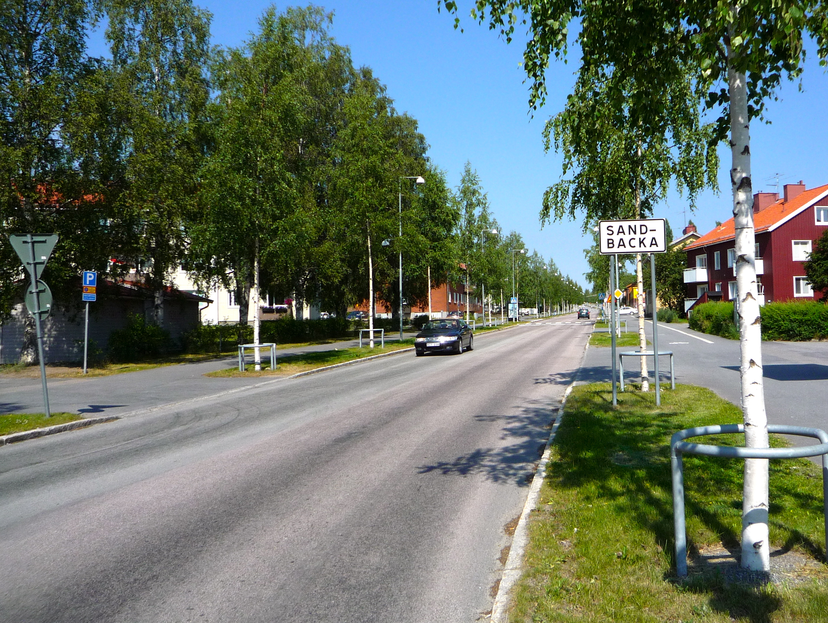 Östra kyrkogatan stretches from crossing with Sandaparken street, in the southernmost part of the Sandbacka district in Umeå.